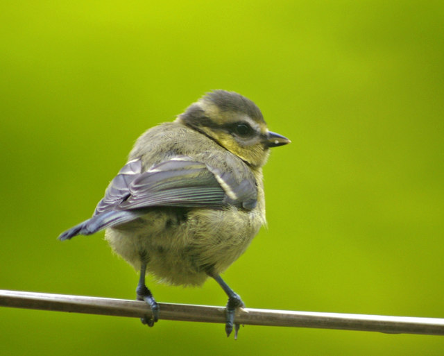 Blue Tit (Cyanistes caeruleus) juvenile This young blue tit shows clearly the difference in colour with an adult bird. The young birds have yellow cheeks and greenish grey wings and head.